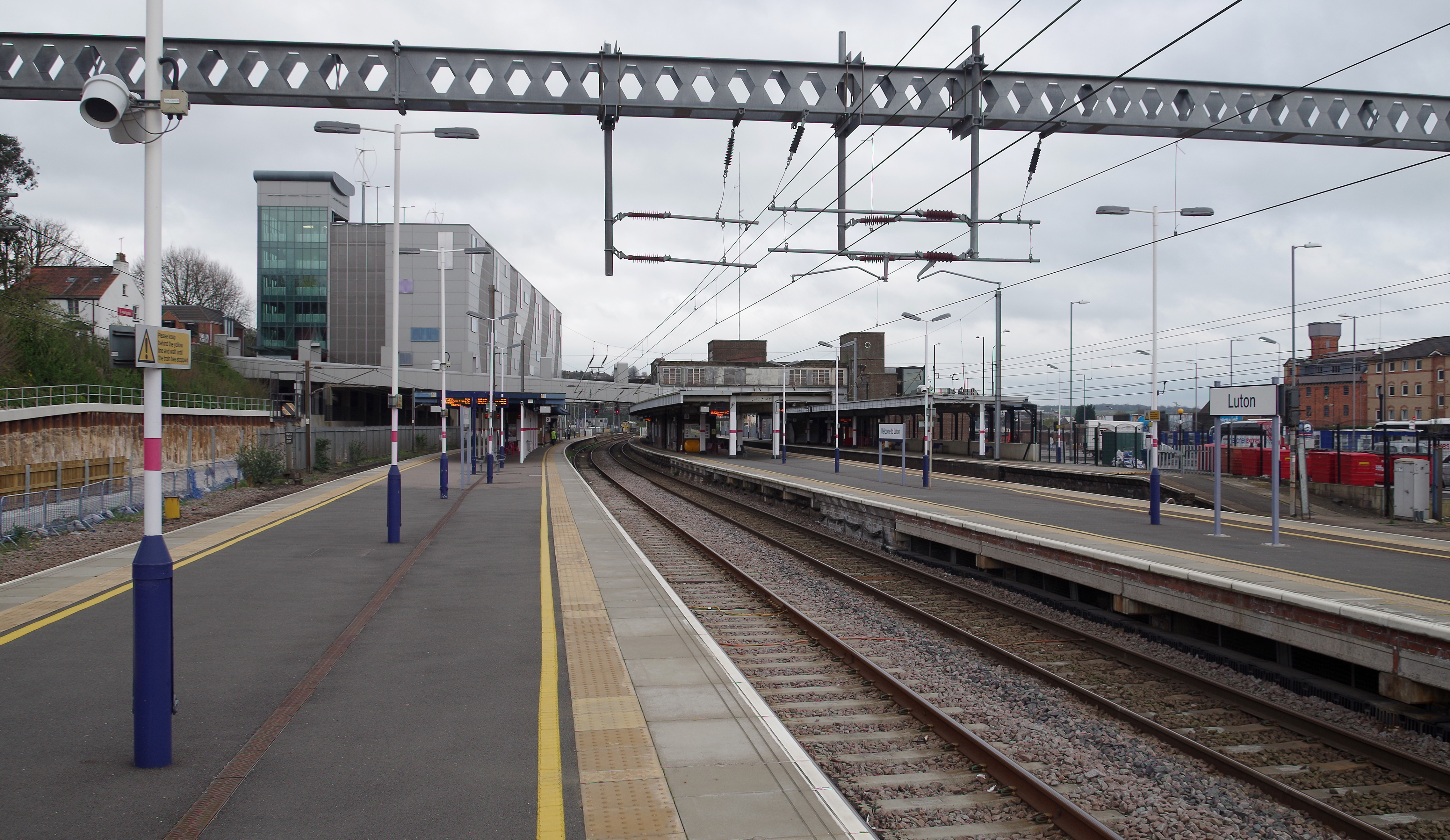 View of Luton railway station from the north end of the platforms.